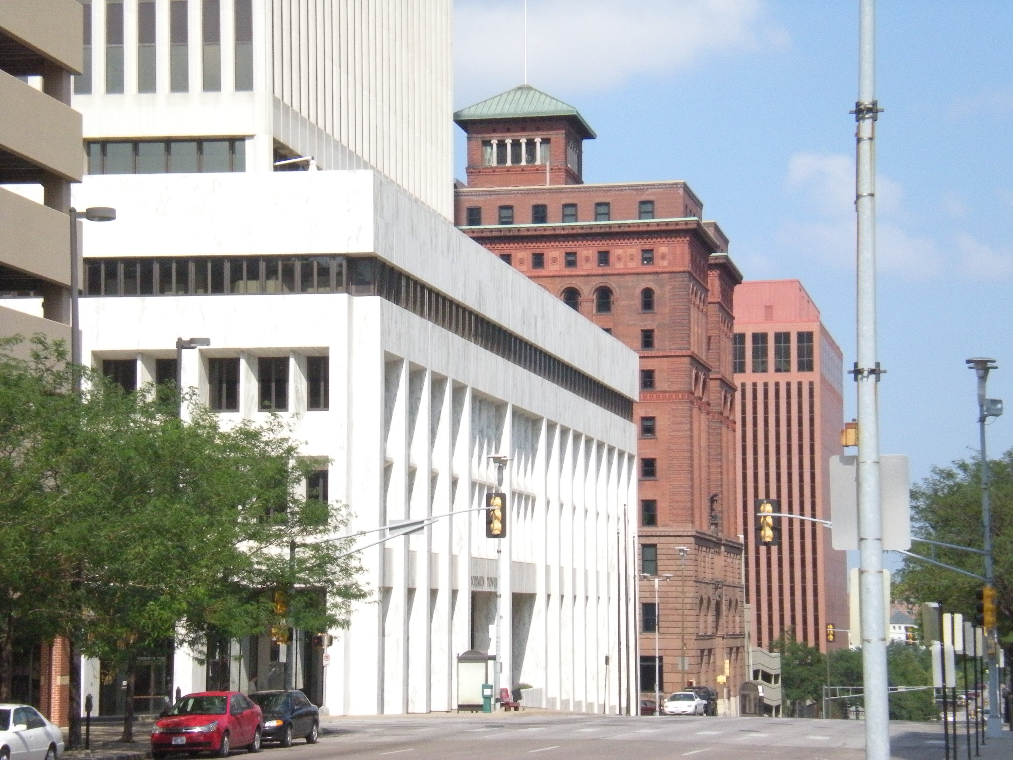 Omaha National Bank Building in 2008